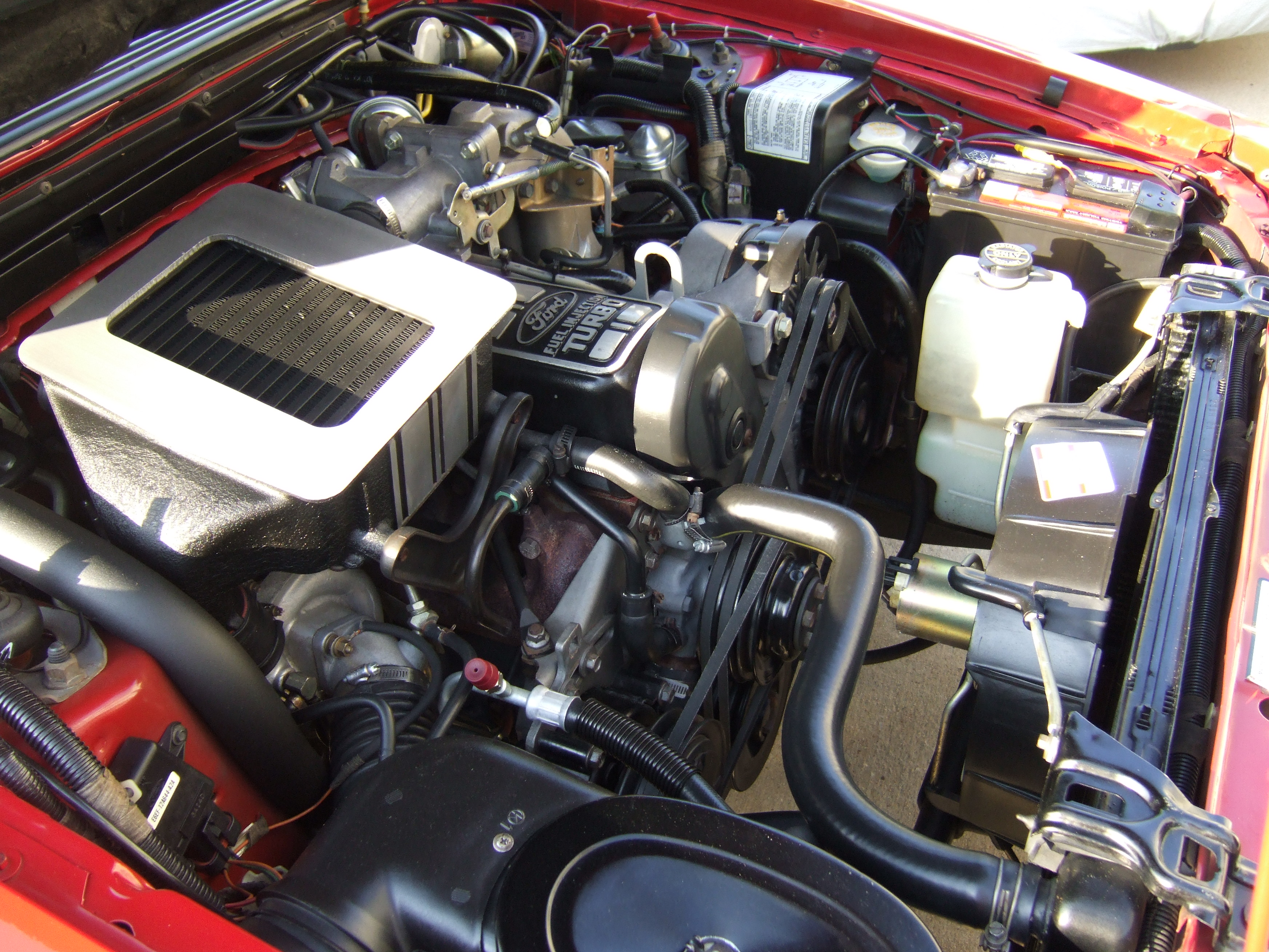 My 86 SVO w/ 1,500 miles, engine bay.